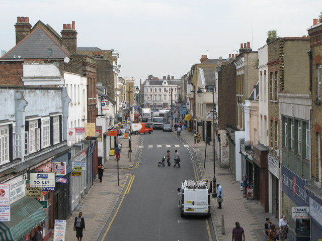 Deptford High Street, SE8